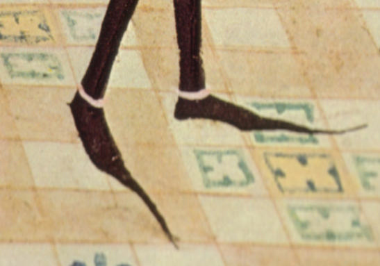 Detail of poulaines from a 15th century illuminated manuscript of Renaud de Montauban.